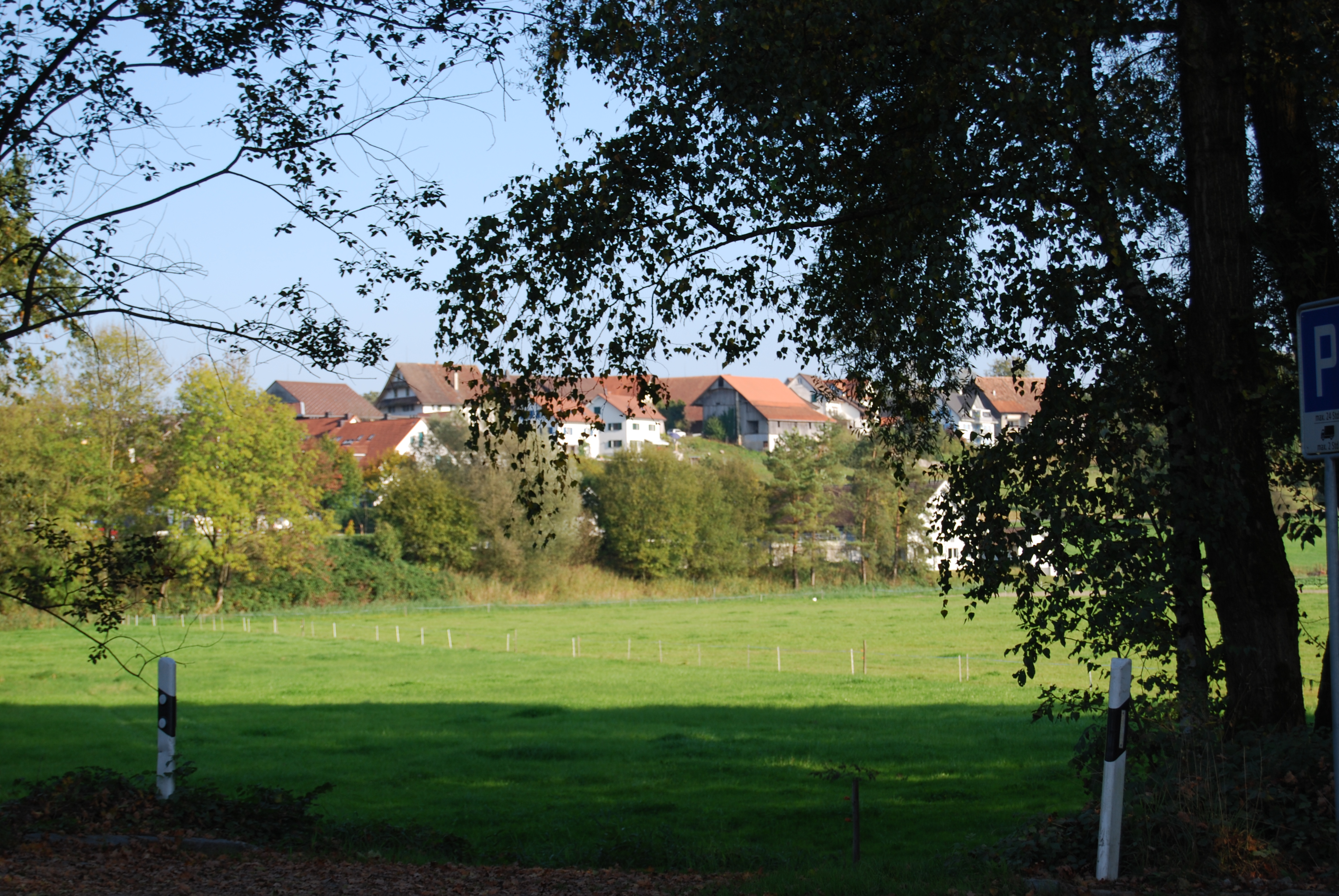 Hagnau, municipality of Merenschwand, canton of Aargau, SwitzerlandEsperanto: Hagnau, komunumo Merenschwand, Kantono Argovio, Svislando